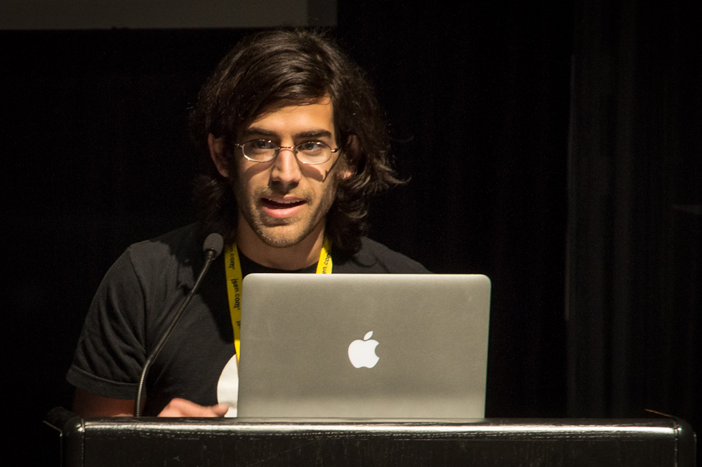 Aaron Swartz speaking at the Freedom to Connect conference, run by David Isenberg in Washington, DC area May 21-22, 2012.